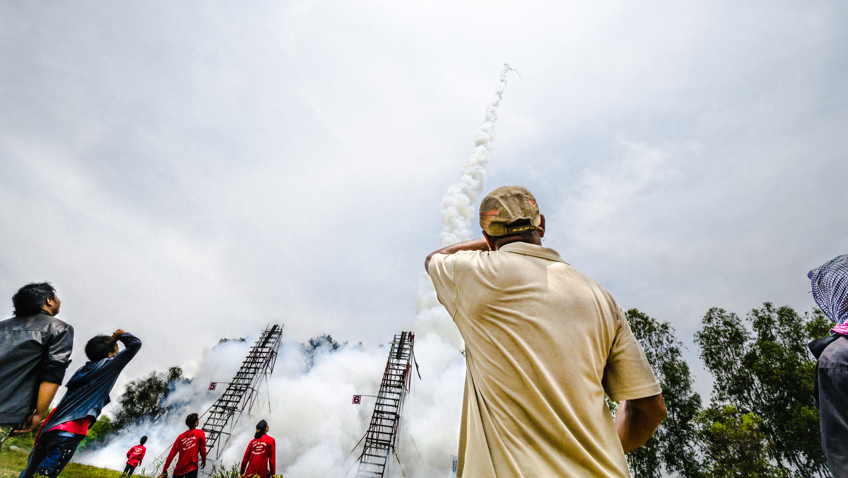 The rockets were launched on Sunday, 12 May, 2013; the third, and final day of the festival.